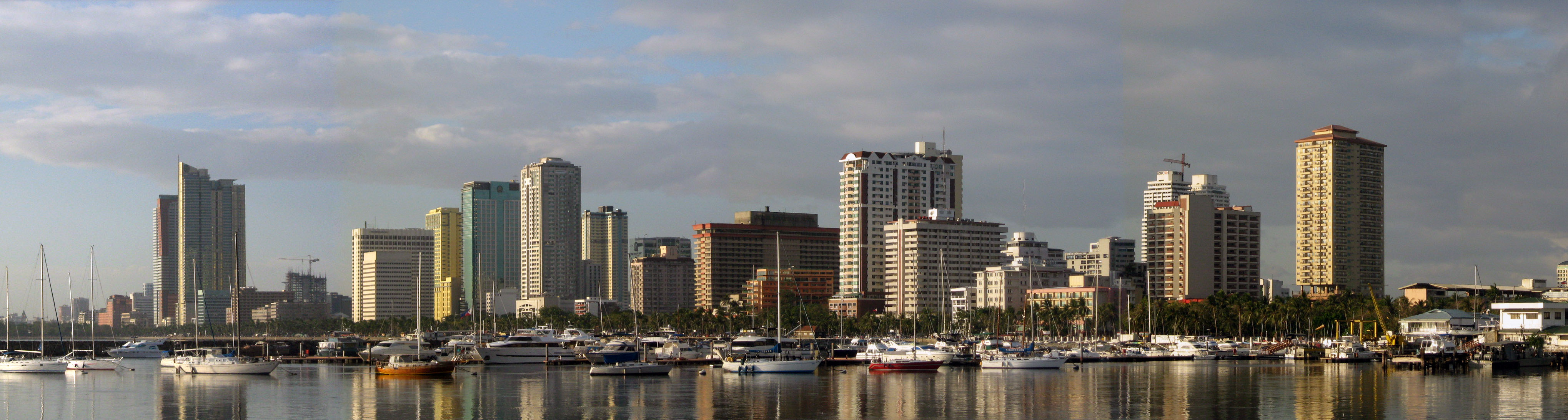 A panorama of the Manila skyline, taken from Harbour Square.